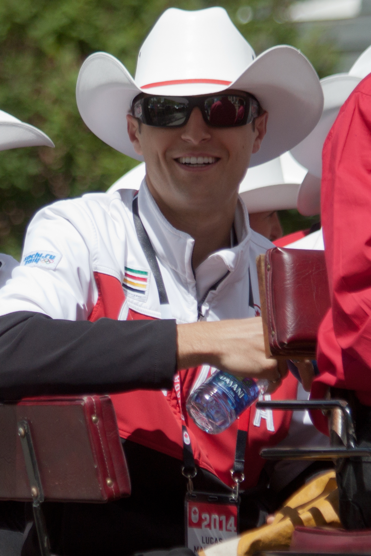 This is Canadian Olympic speed skater Lucas Makowsky at the Parade of Champions held in Calgary, Alberta on June 6, 2014 to honour Canadian athletes who compted in the 2014 Sochi Winter Olympics.